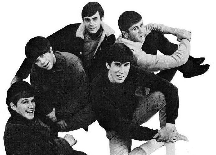 Photo of The Kingsmen in 1966. The photo was part of an ad congratulating Brenda Lee on her 10th anniversary in show business.